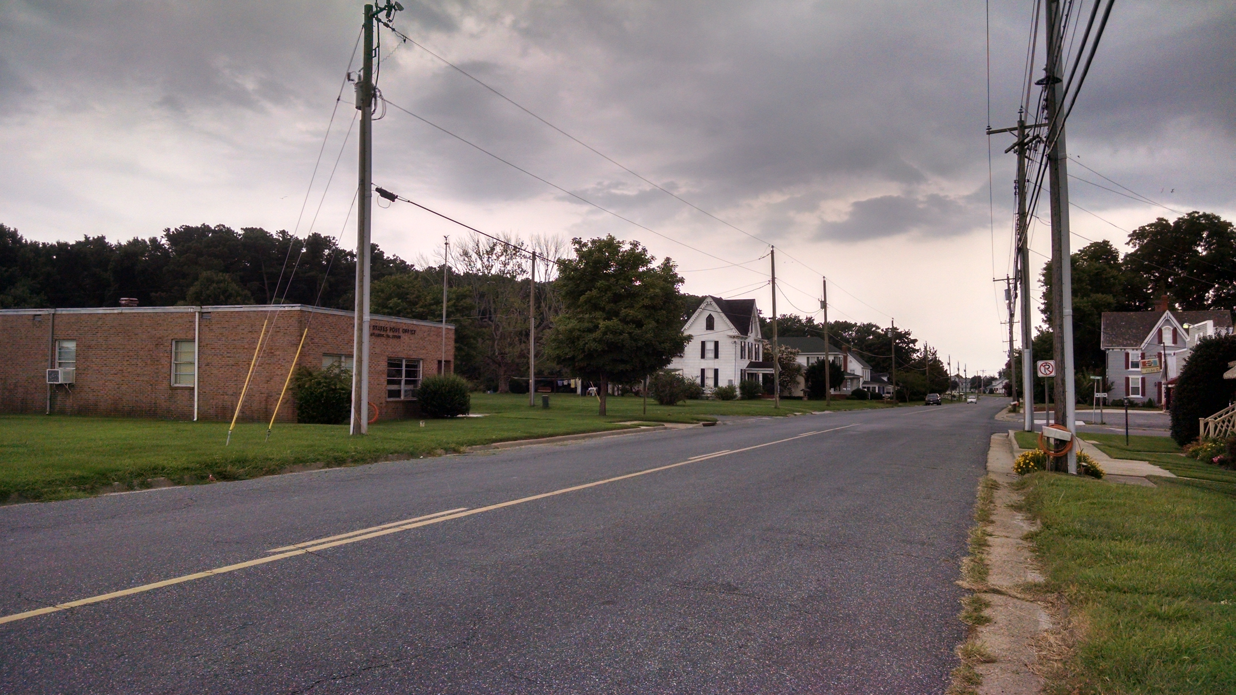 Atlantic Road, the primary thoroughfare in Atlantic, Virginia. The post office is at left.